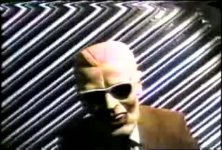 Unidentified man wearing Max Headroom mask, as seen during the Max Headroom broadcast signal intrusion incident of November 22, 1987, Chicago.